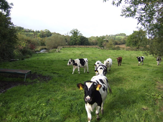 Calves in pasture By the Sillees River south of Derrygonnelly, Co. Fermanagh. (Fresian, also known as Holstein, breed)